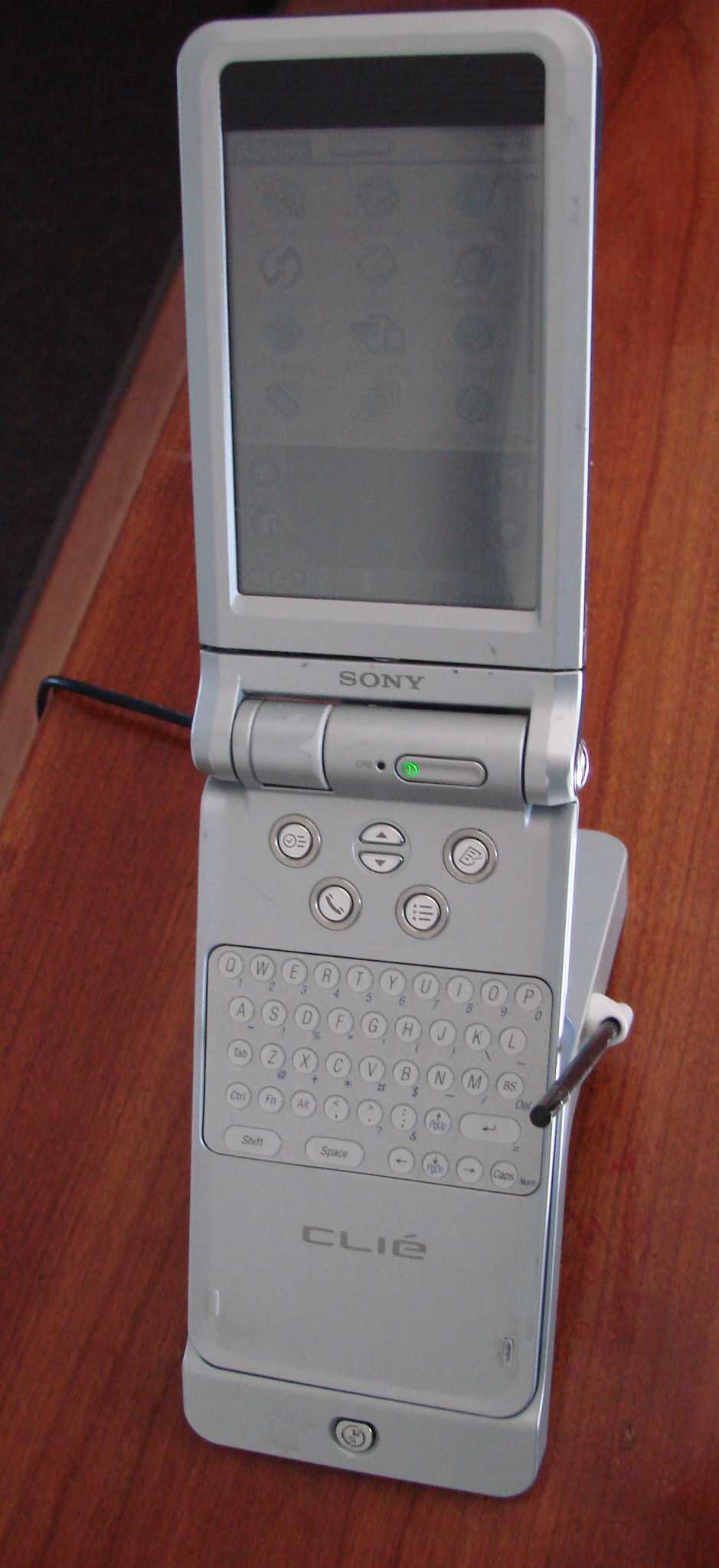 Sony PEG-MR70V/U Personal Organizer (PDA)